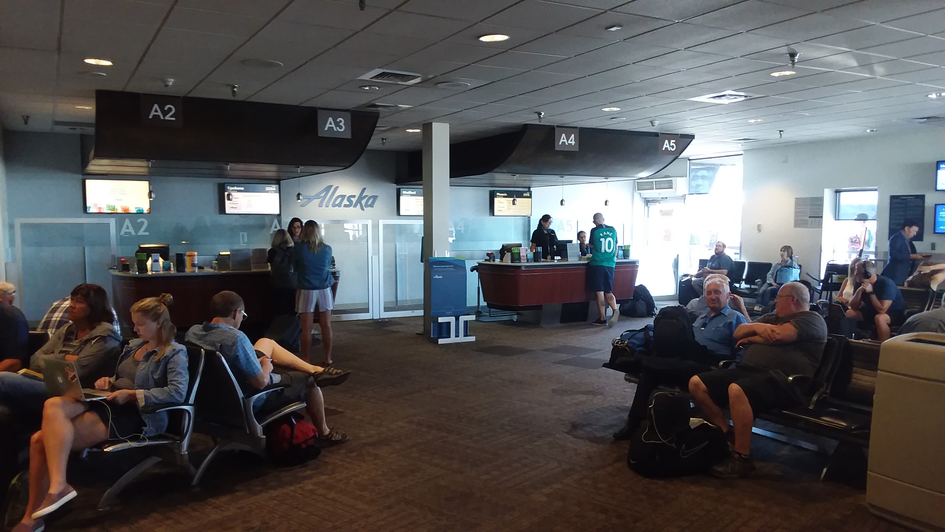 Gates A2 to A5 at PDX